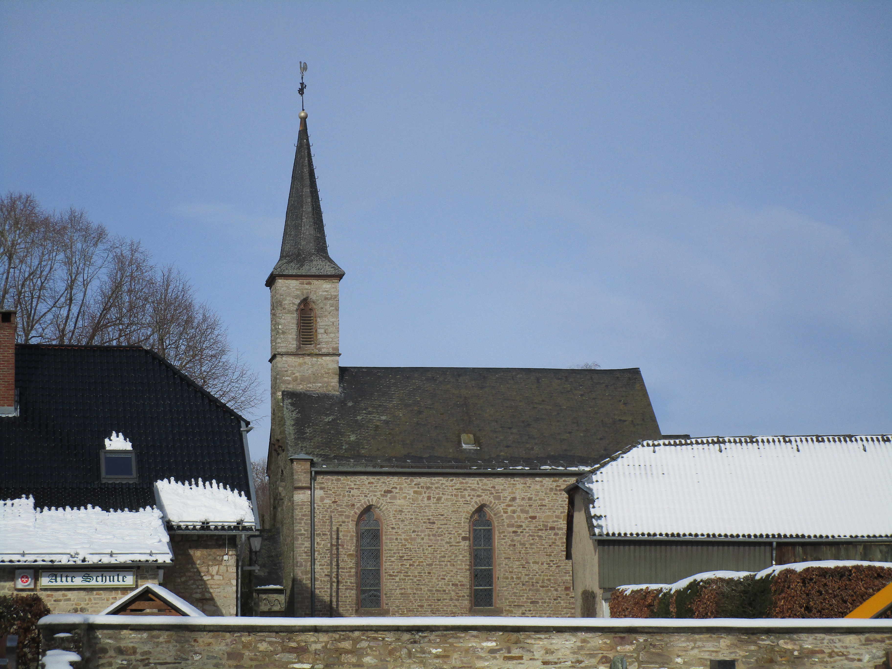 Filialkapelle St. Bartholomäus, Nettersheim-Buir, Nordrhein-Westfalen.